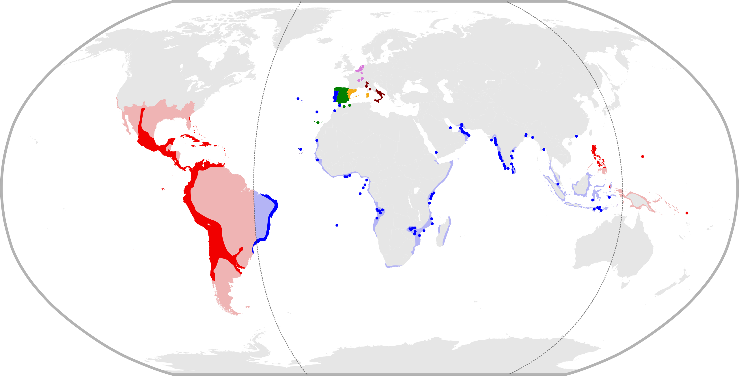 Map of the territories of Philip II, King of Spain in 1598 Territories appointed to the Council of Castile. Territories appointed to the Council of Aragon. Territories appointed to the Council of Portugal. Territories appointed to the Council of Italy. Territories appointed to the Council of the Indies. Territories appointed to the Council of Flanders comprising the disputed territories of the United Provinces.